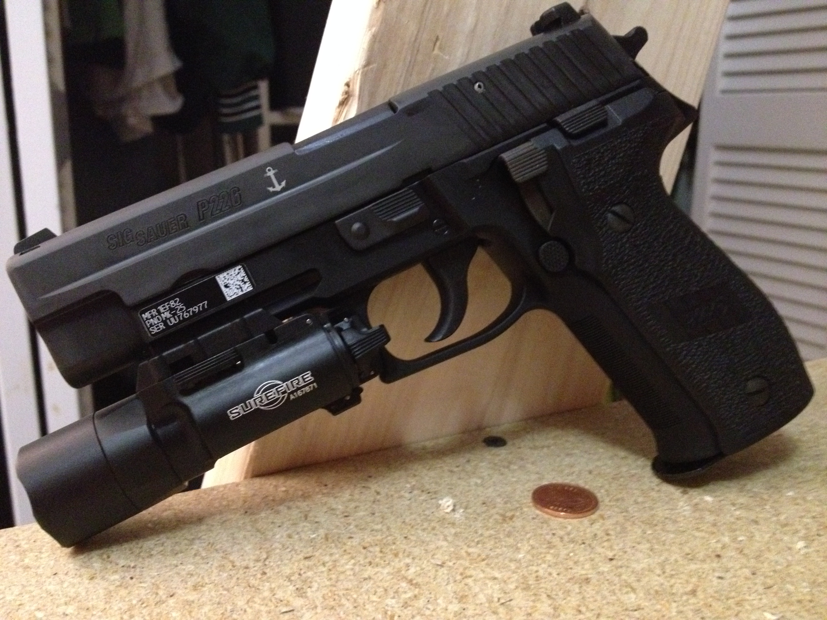 A Sig Sauer P226 Mk25 chambered in 9mm, mounted with a Surefire X300 Ultra weaponslight